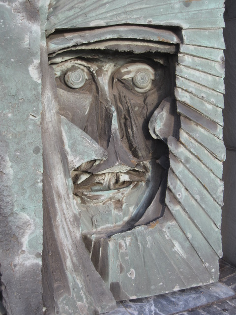 William Mitchell relief at Liverpool RC Cathedral